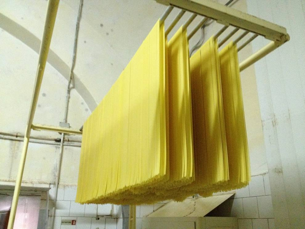 Faella Drying Spaghetti in Gragnano - Italy